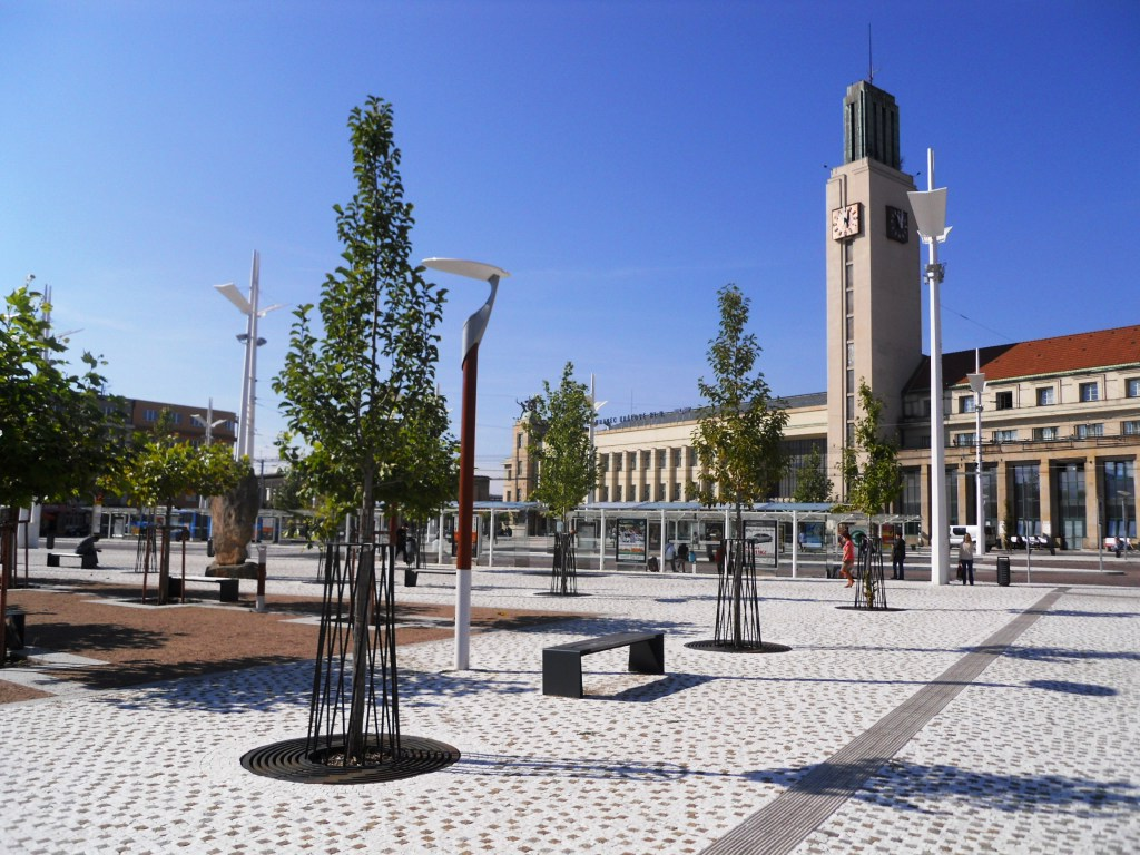 Hradec Králové, Riegerovo nam and Railway station